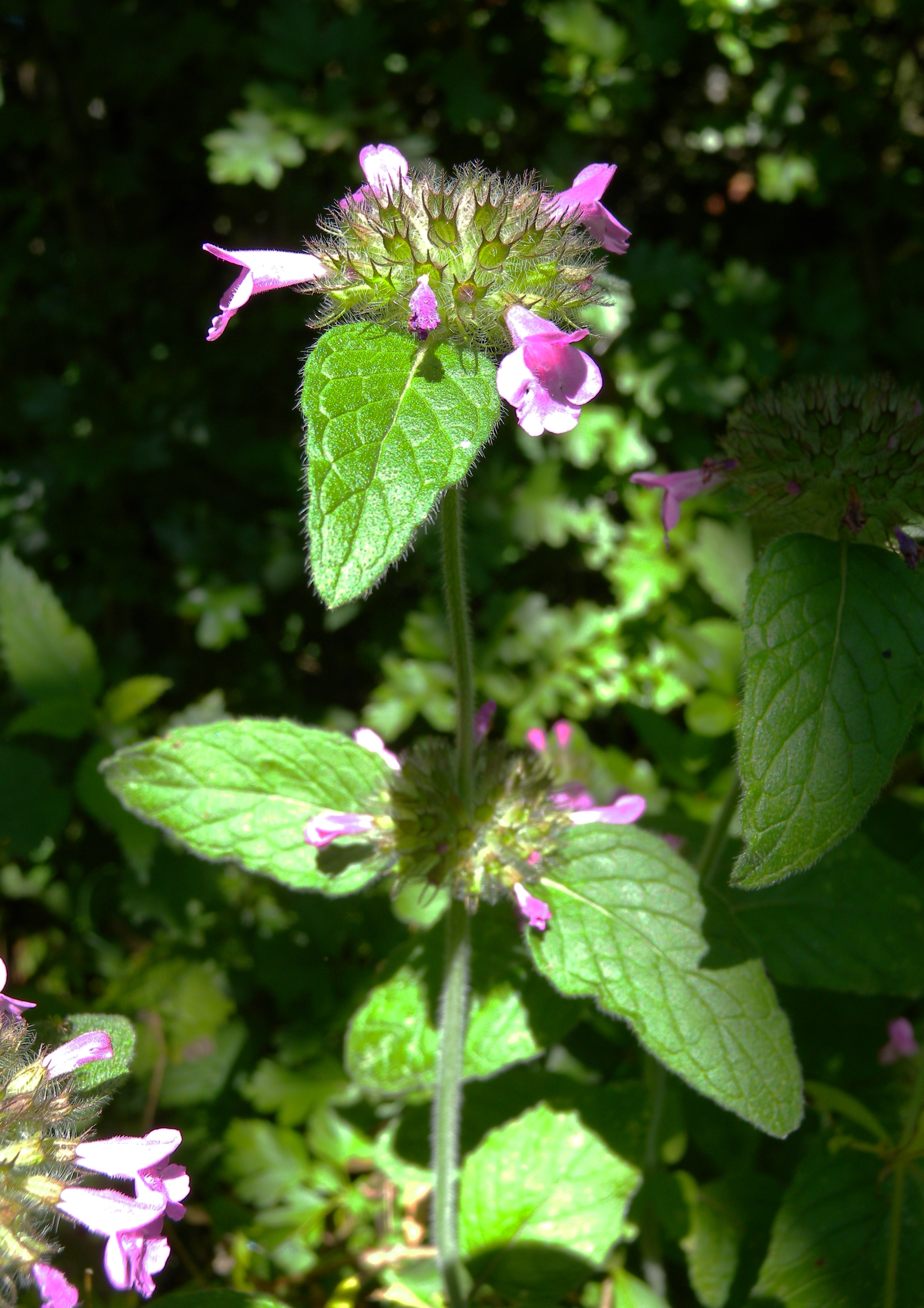 Clinopodium vulgare (Lamiaceae); Rossinière, Canton of Vaud, Switzerland